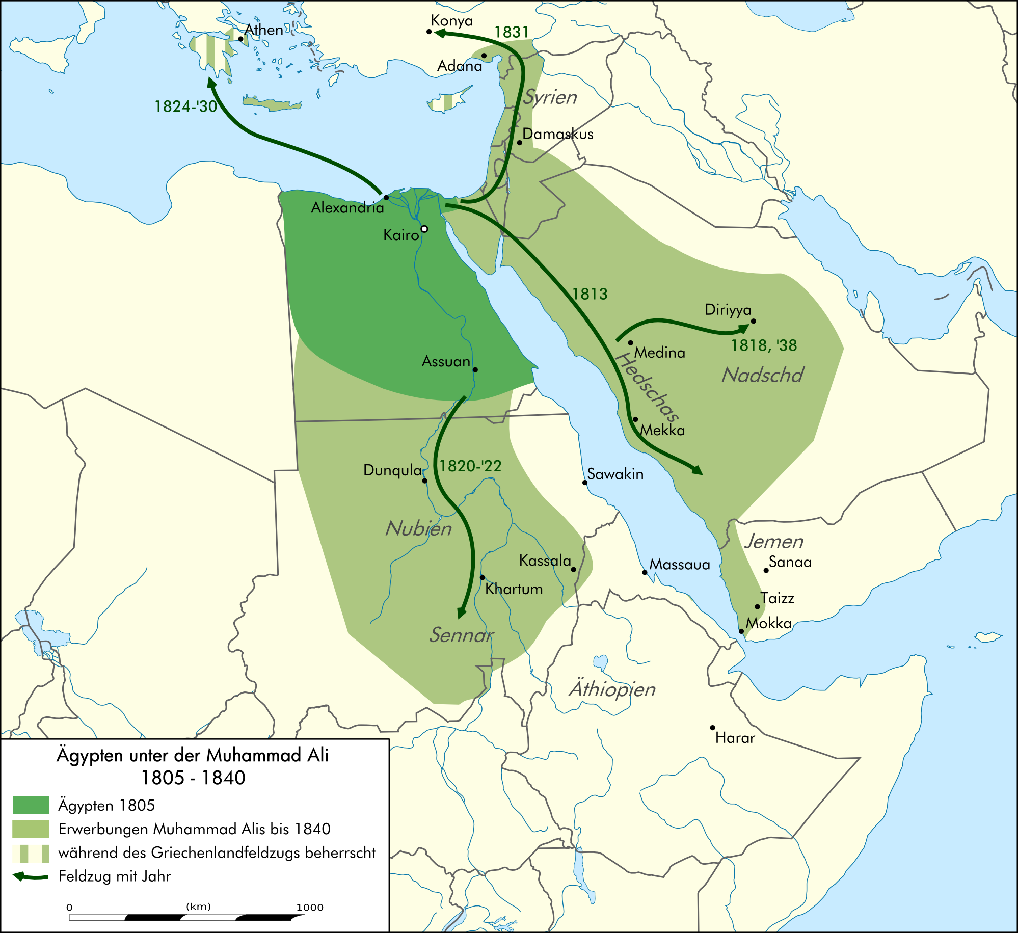 Map of Egypt under Muhammad Ali in German.